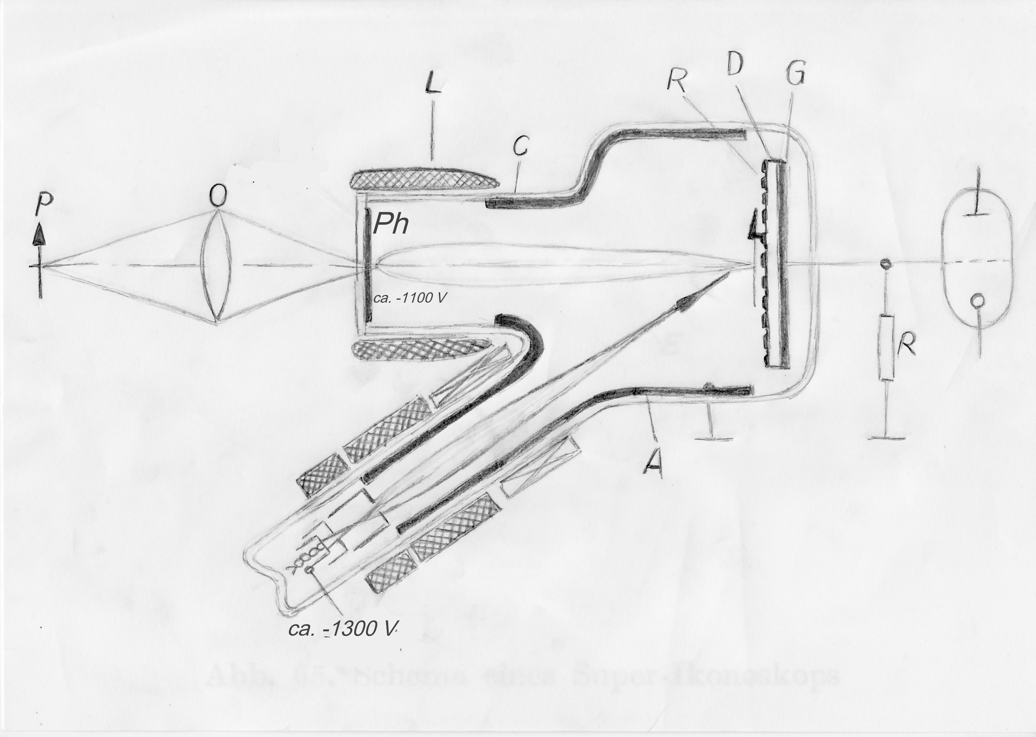 Super-Iconoscope